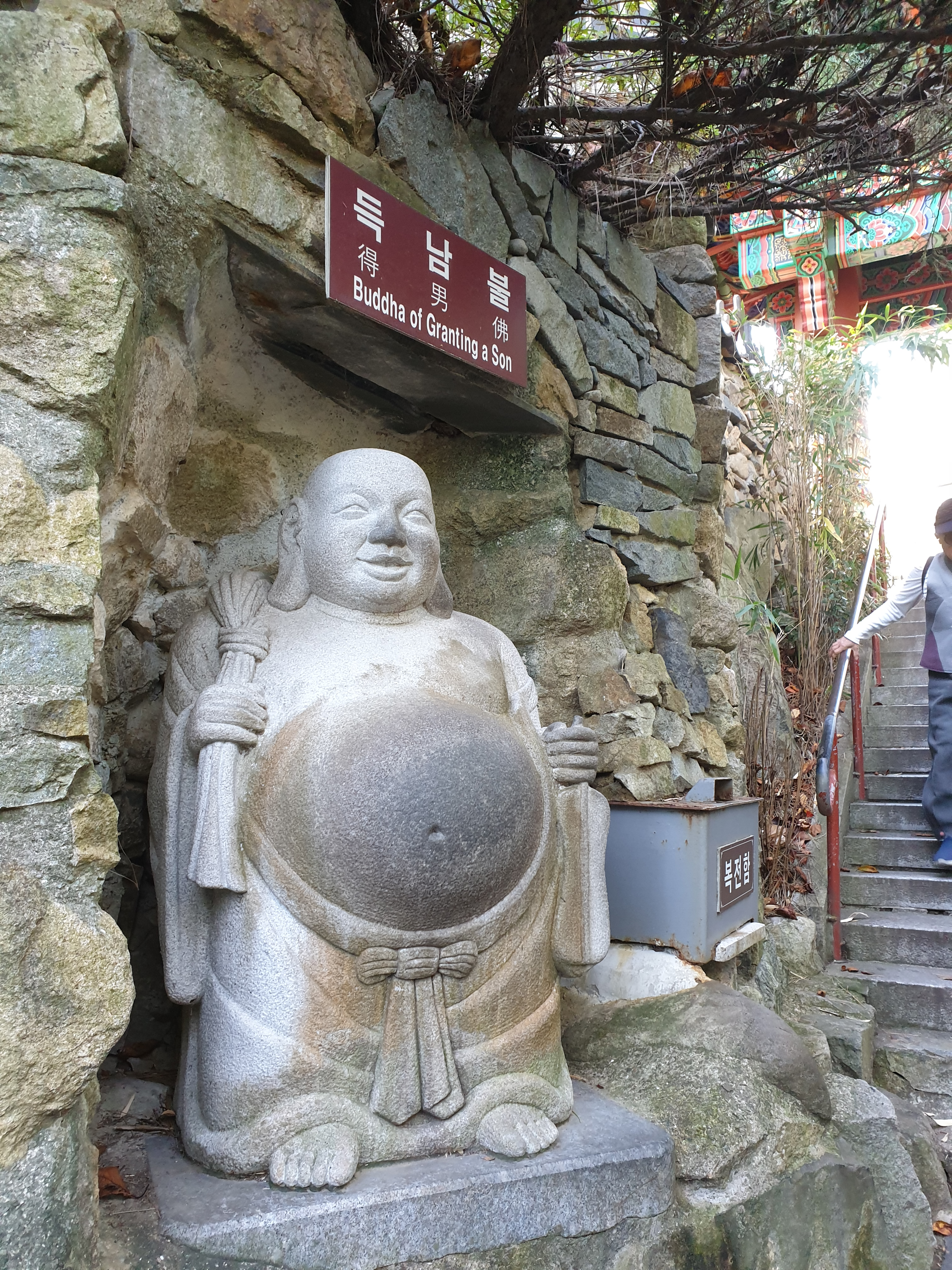 Buddha statue for praying to conceive a male child in Haedong Yonggungsa temple, Busan, South Korea.